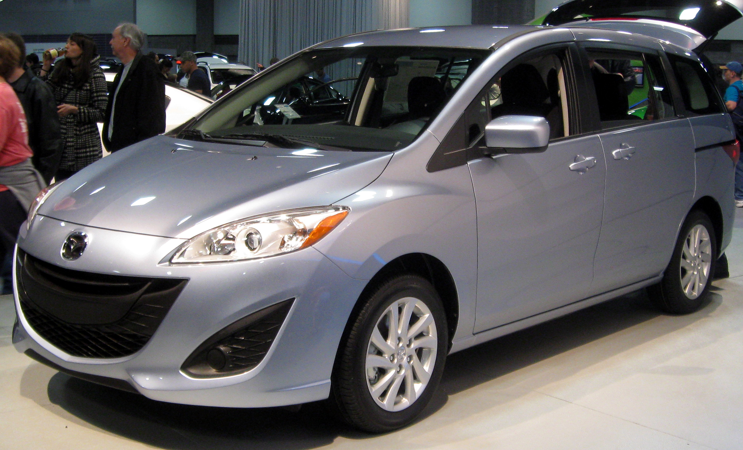 2012 Mazda5 photographed at the 2011 Washington (D.C.) Auto Show.